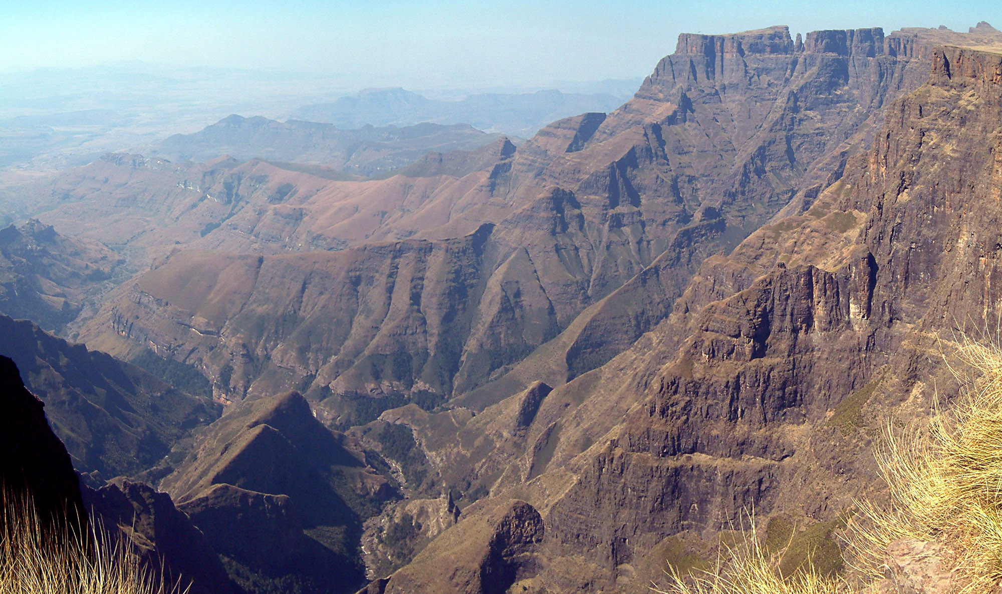 On the ridge of the Drakensberg amphitheatre, close to the lip of the Tugela Falls (arguably the highest waterfall in the world[1]) overlooking the Tugela valley and the Royal Natal National Park, KwaZulu-Natal, South Africa. This place is a UNESCO World Heritage Site, listed as Maloti-Drakensberg Park. ↑ a b (13 December 2016). "Czech surveyors: Tugela, not Angel is world's tallest waterfall". Prague Daily Monitor. Retrieved on 23 October 2018.